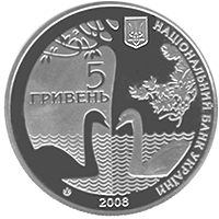 Coin of Ukraine